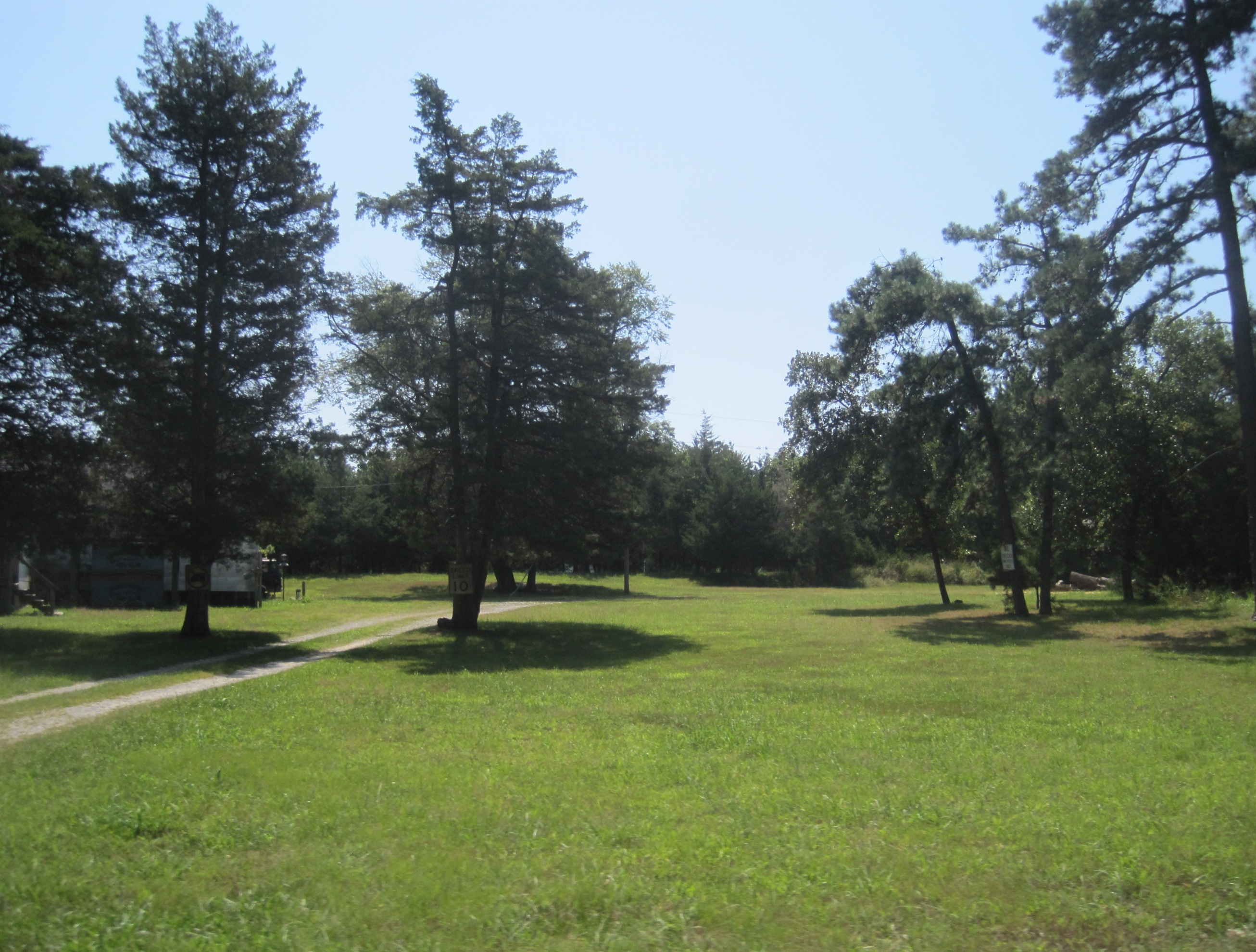 Photo showing Woodmansie, New Jersey, an unincorporated community within Woodland Township. Photo taken along Savoy Boulevard within the New Jersey Pine Barrens.